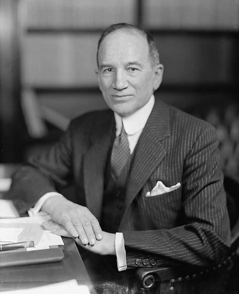 W. Kingsland Macy, Congressman from New York